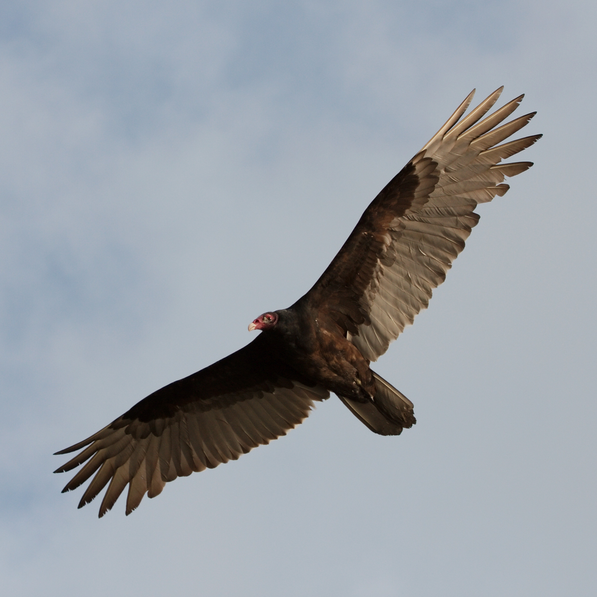 Turkey Vulture flying in Miami, Florida, USA.